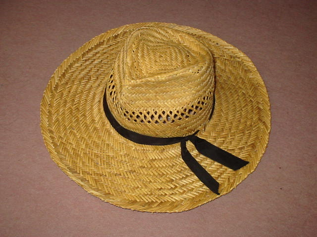 A straw hat for men.